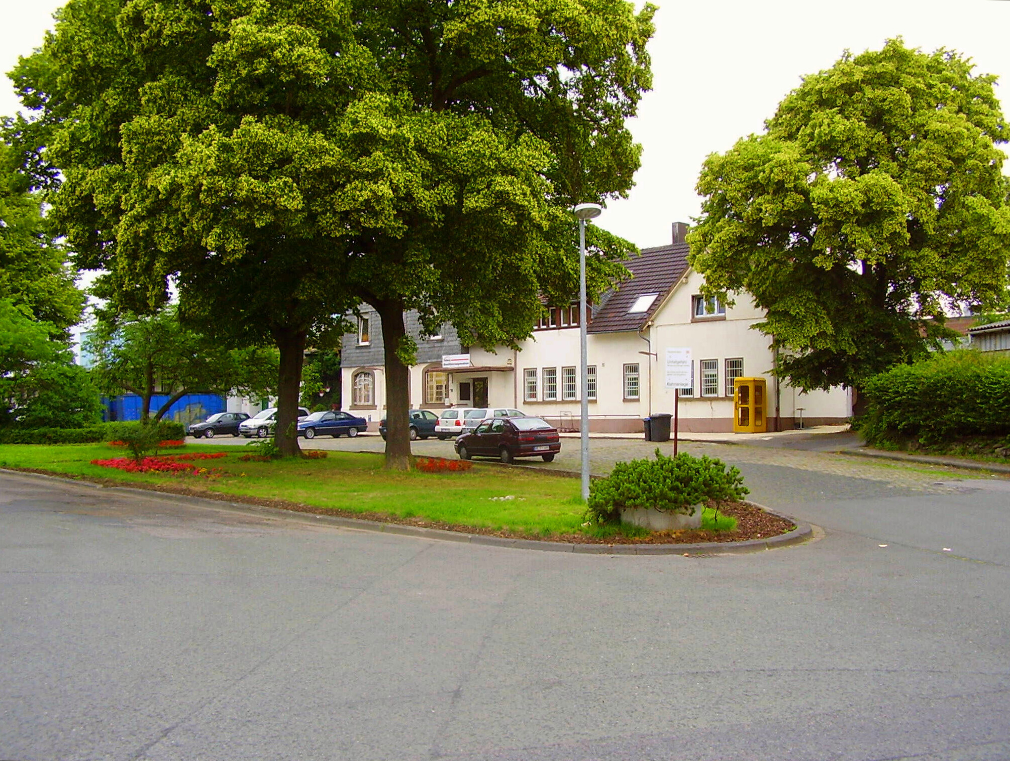 The former train station Datteln in Meckinghoven.